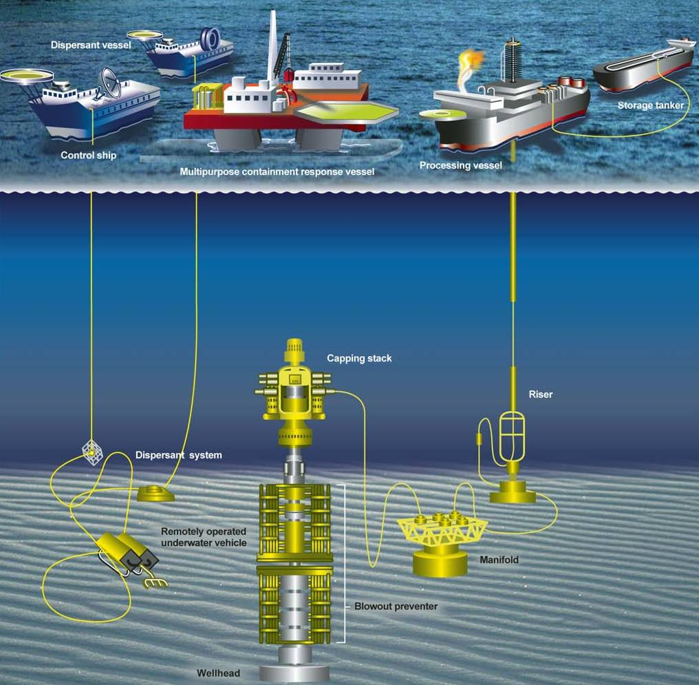 This image is excerpted from a U.S. GAO report: OIL AND GAS: Interior Has Strengthened Its Oversight of Subsea Well Containment, but Should Improve Its Documentation Note: Objects in figure are not to scale.